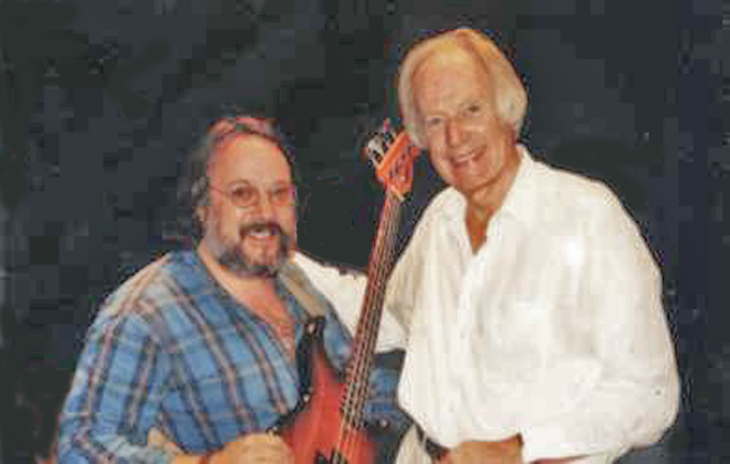 Alberto Jorge (musician) with Sir George Martin